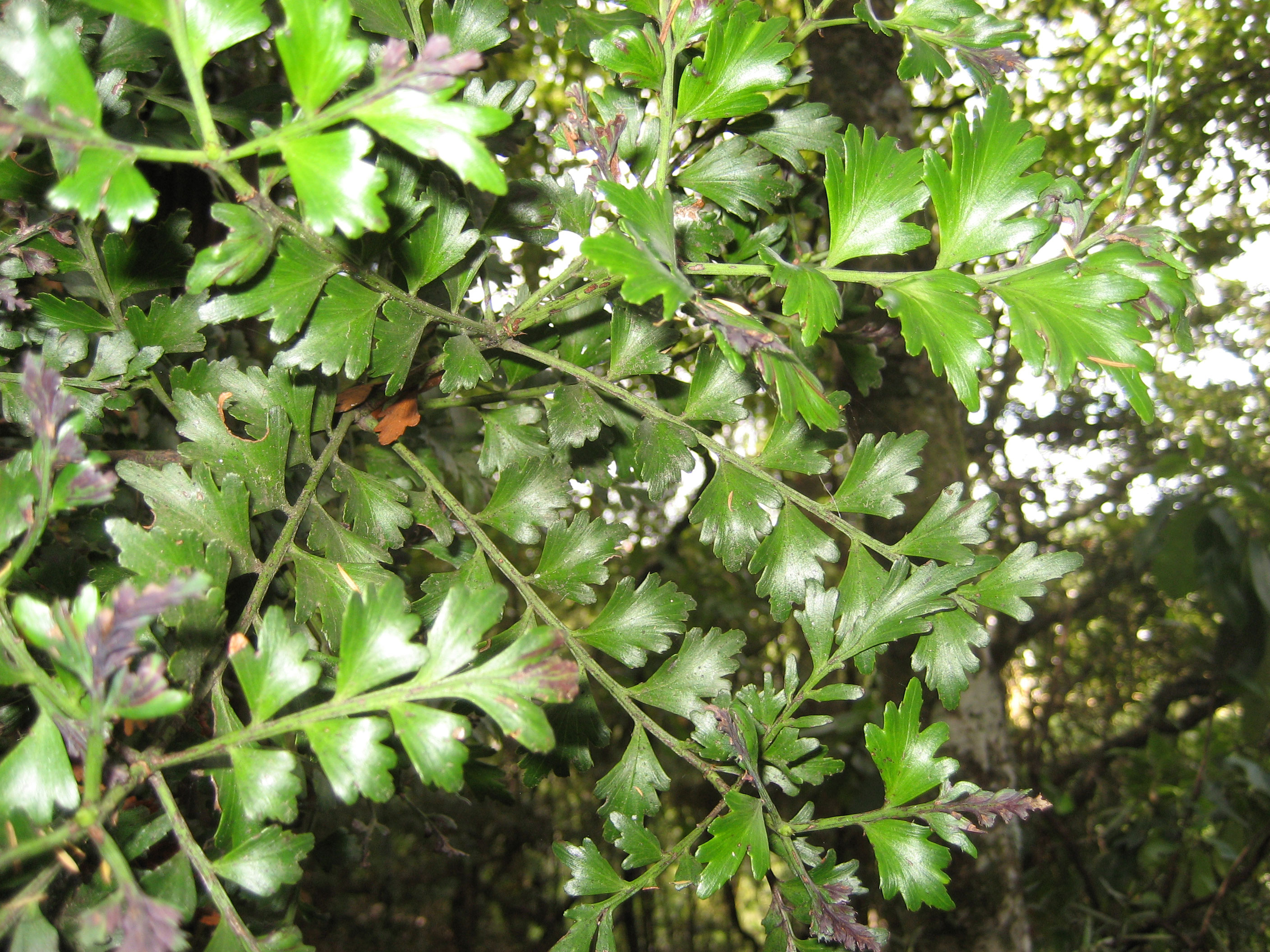 Phyllocladus trichomanoides, common name: Tānekaha, Country: New Zealand, Podocarpaceae. Foliage, Auckland, New Zealand, 3 March 2007